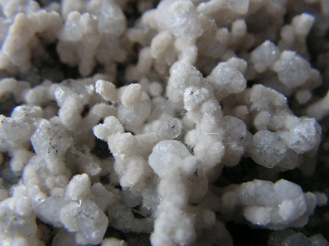 Thomsonit_Burnt_Cabin_Creek,_Wheeler_Co.,_Oregon,_2USA; autor zdjęcia Paleonet; 10.12.2006r.